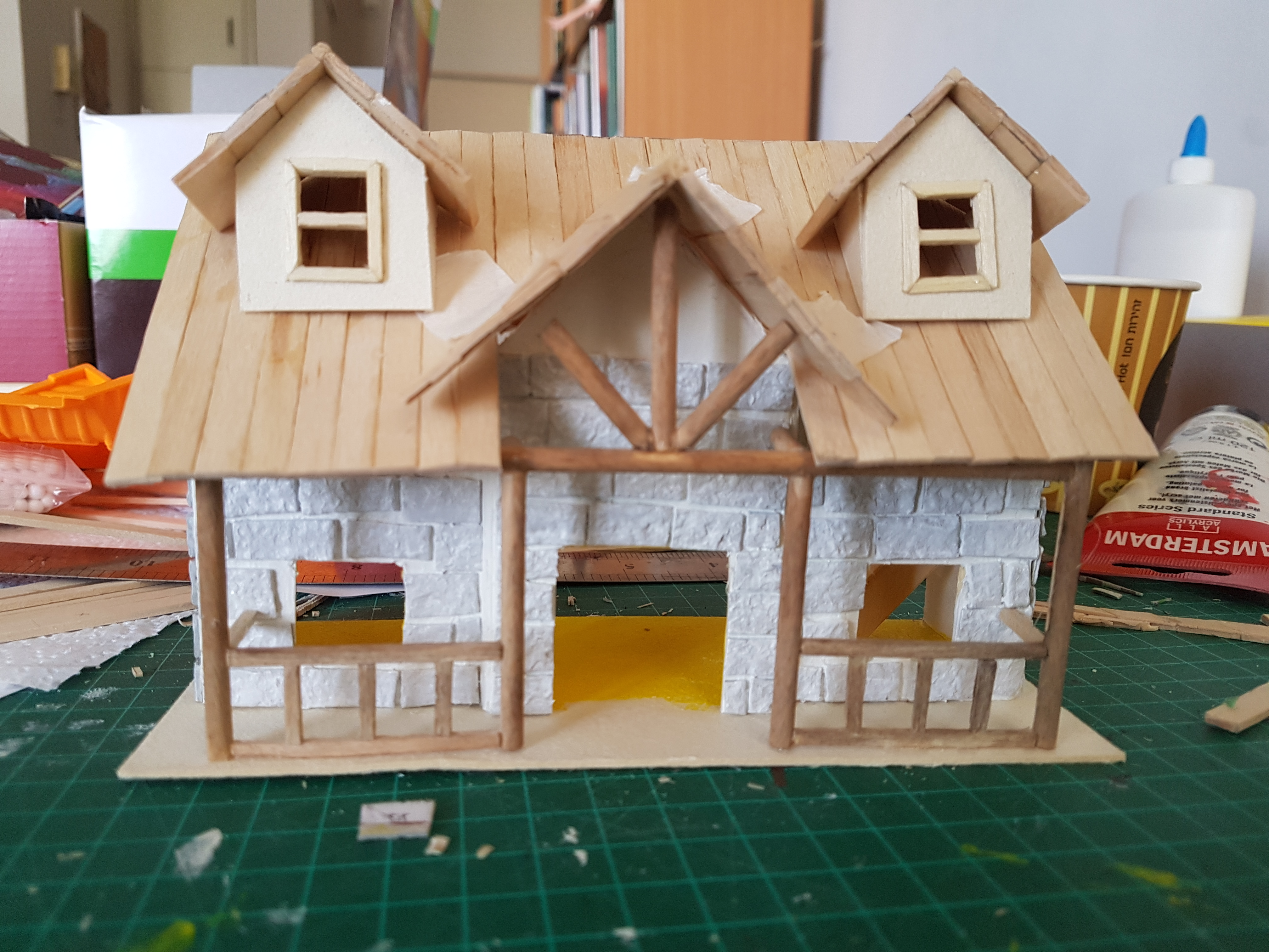 miniature hause, 30 cm tall, made of woods & corrugated cardboard